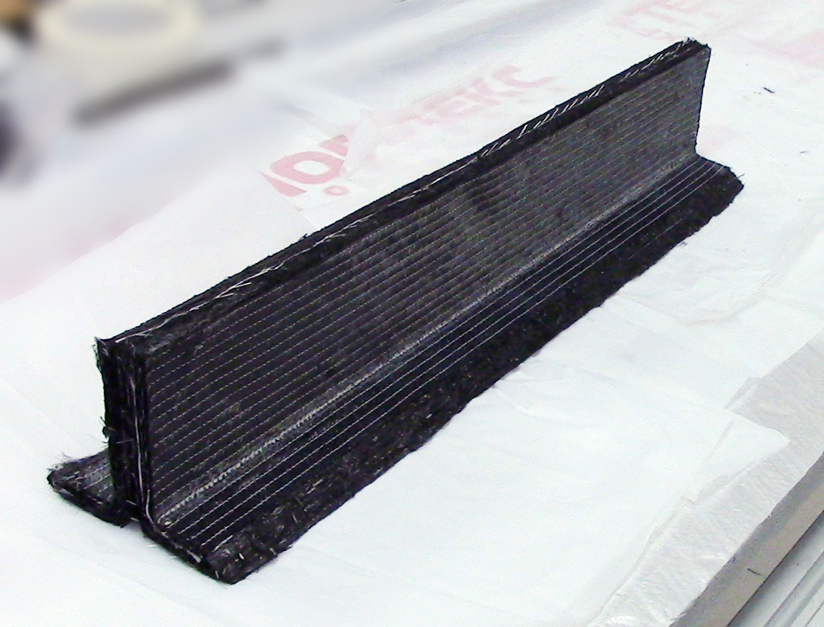 Dry preform stringer from carbon fabric